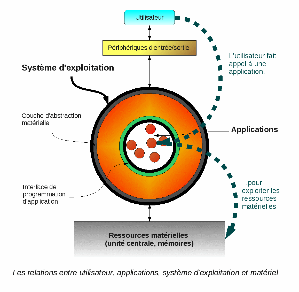 This picture describes the relations between user, applications, OS and hardware.